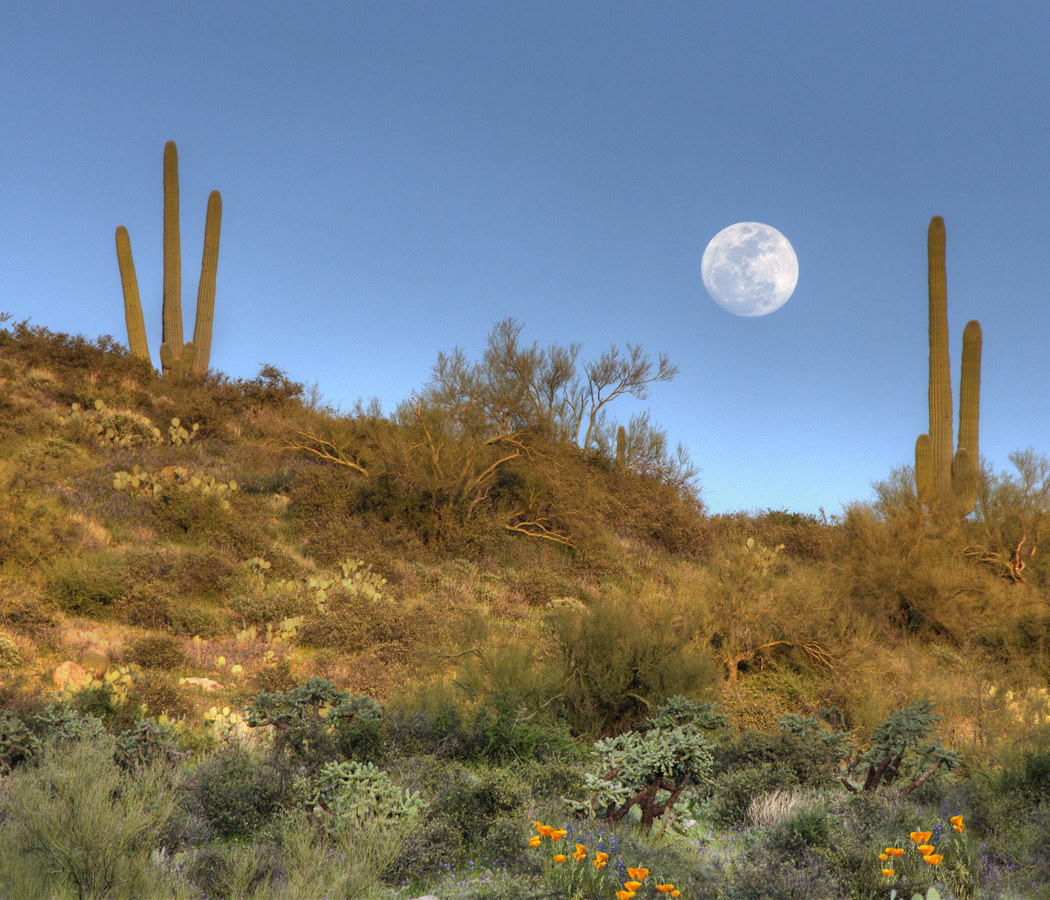 March 28, 1020, a few miles north of Superior, AZ.